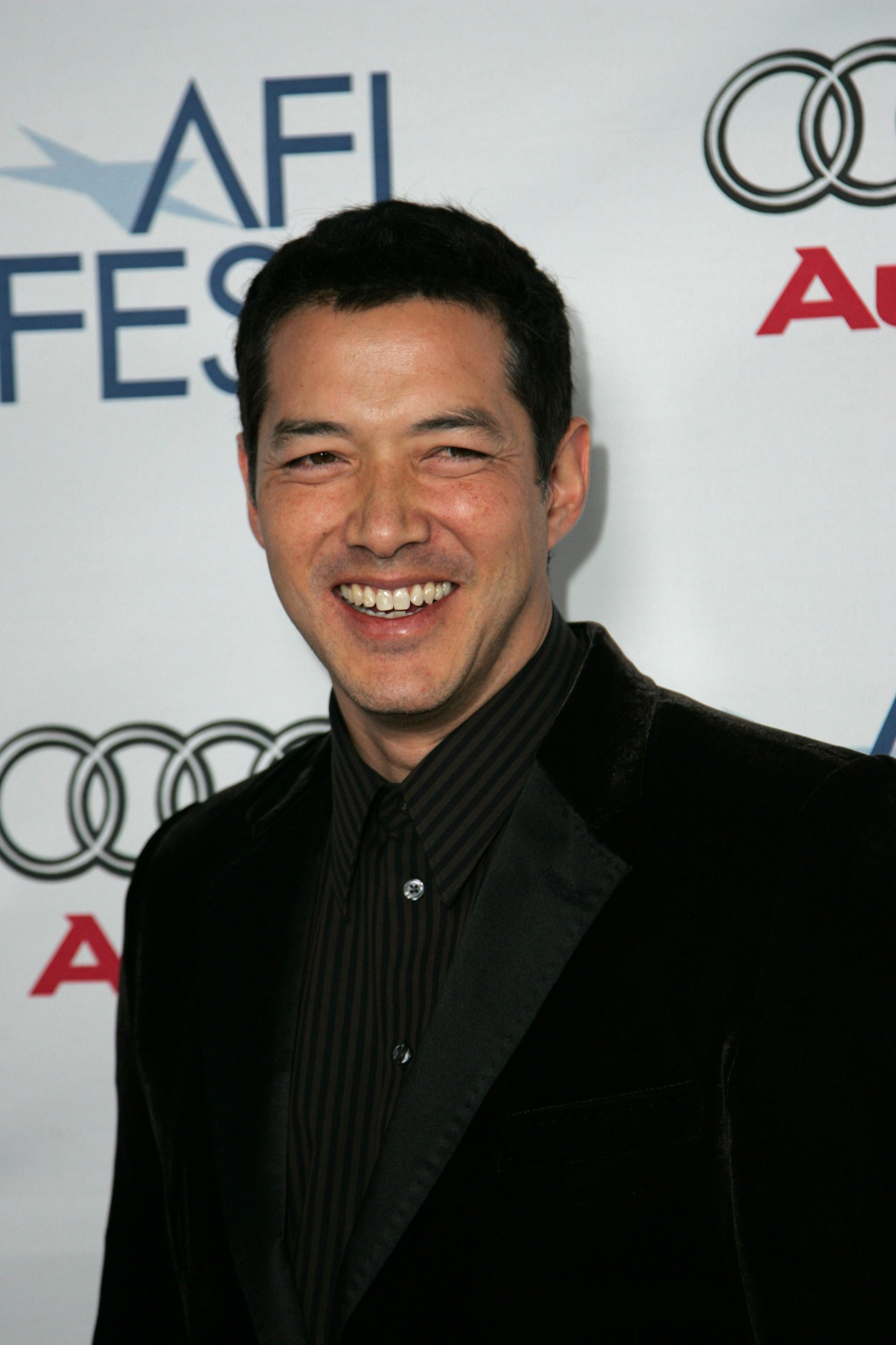 RealTVfilms Photo Stills, AFI Film Festival Los Angeles 2009